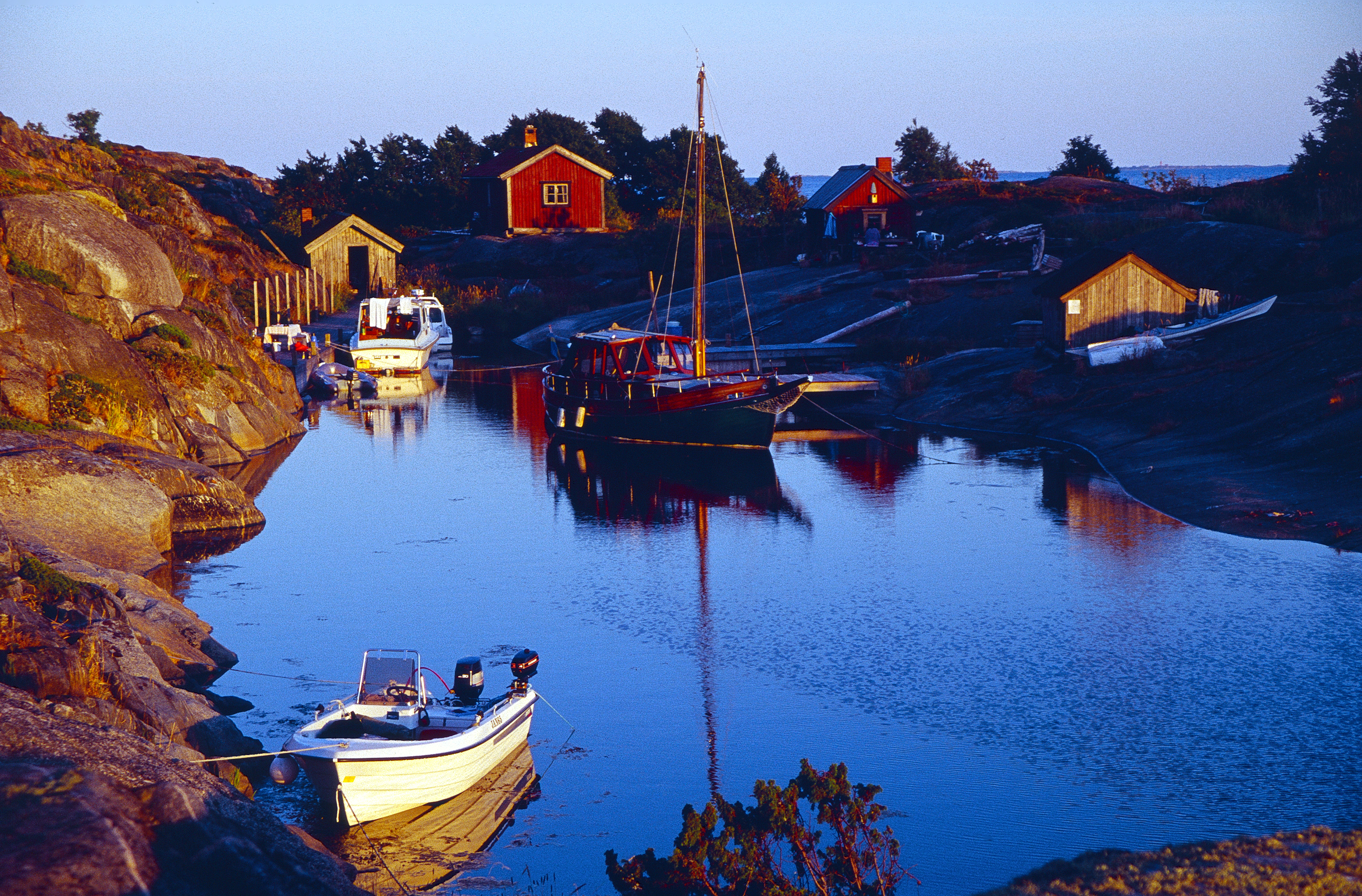 Lygna